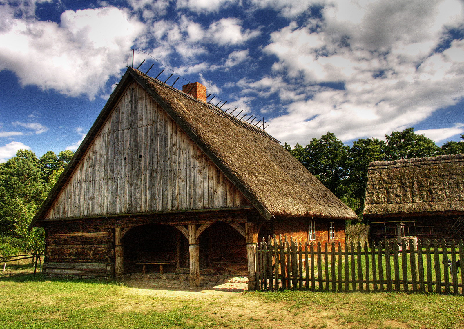 KUJAVIAN-DOBRZYN Etnographic Park in Kłóbka